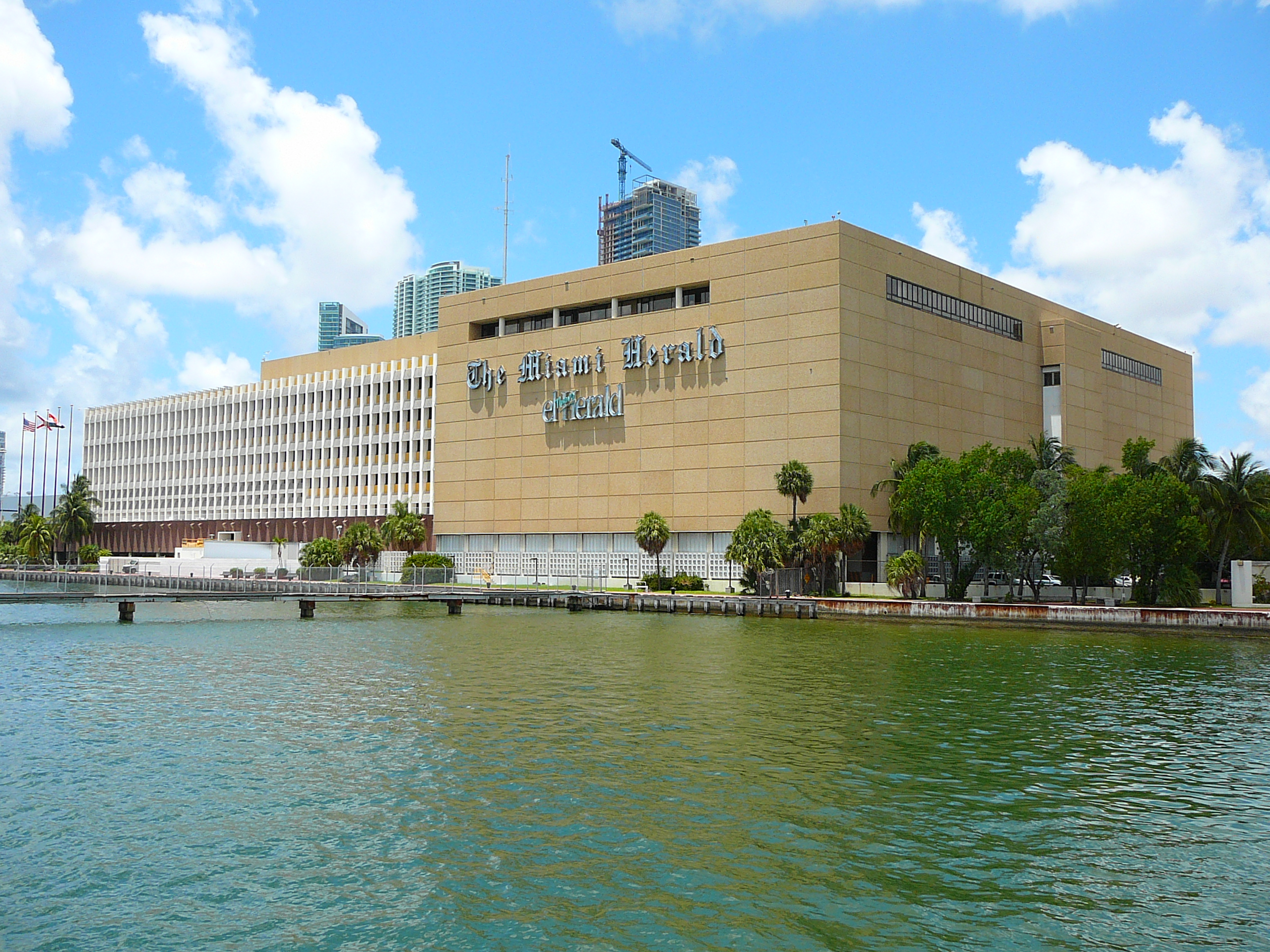 The Miami Herald and El Nuevo Herald building in Miami, Florida as seen from the Venetian Causeway 7/11/2008.